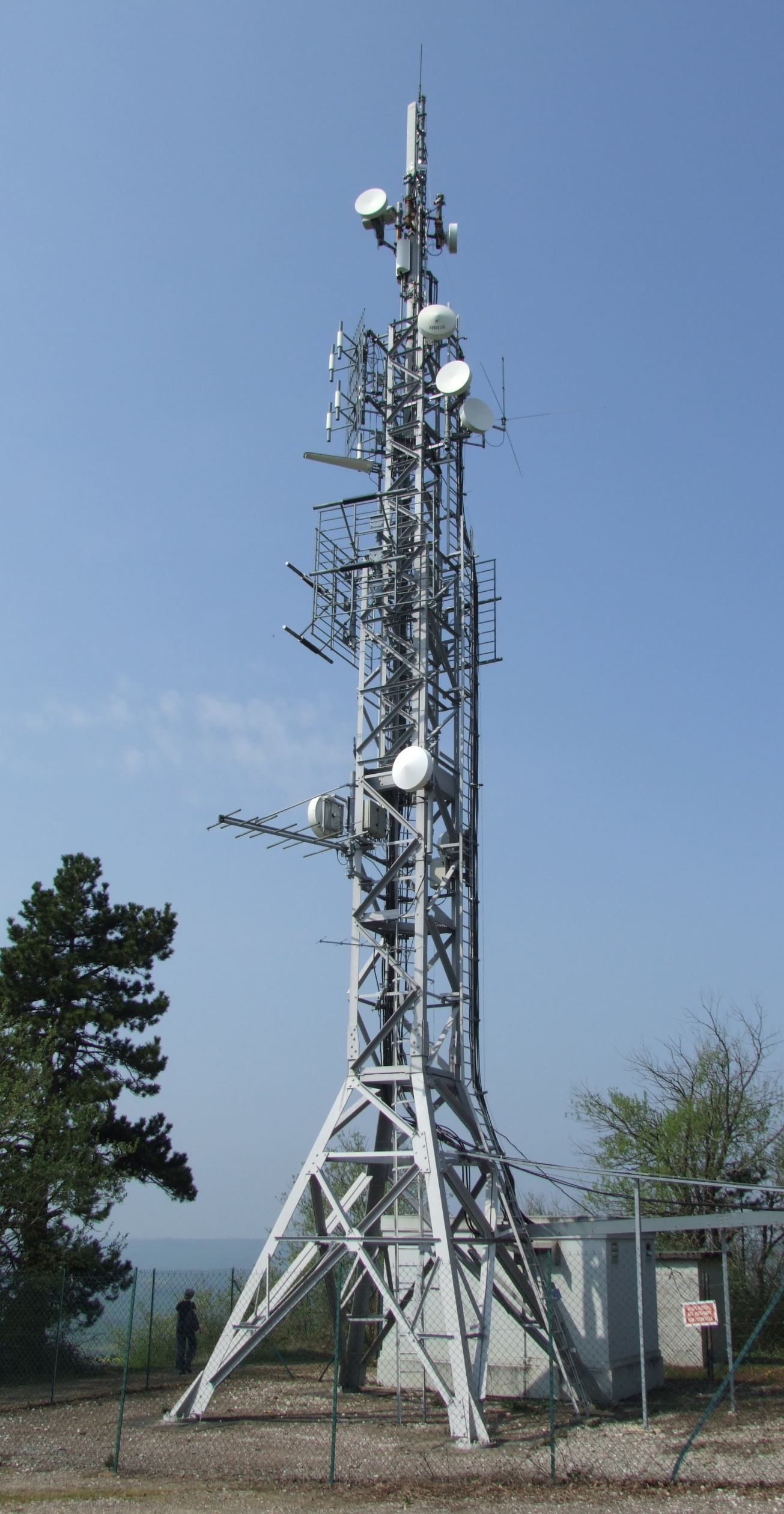 Burgundy, FRANCE